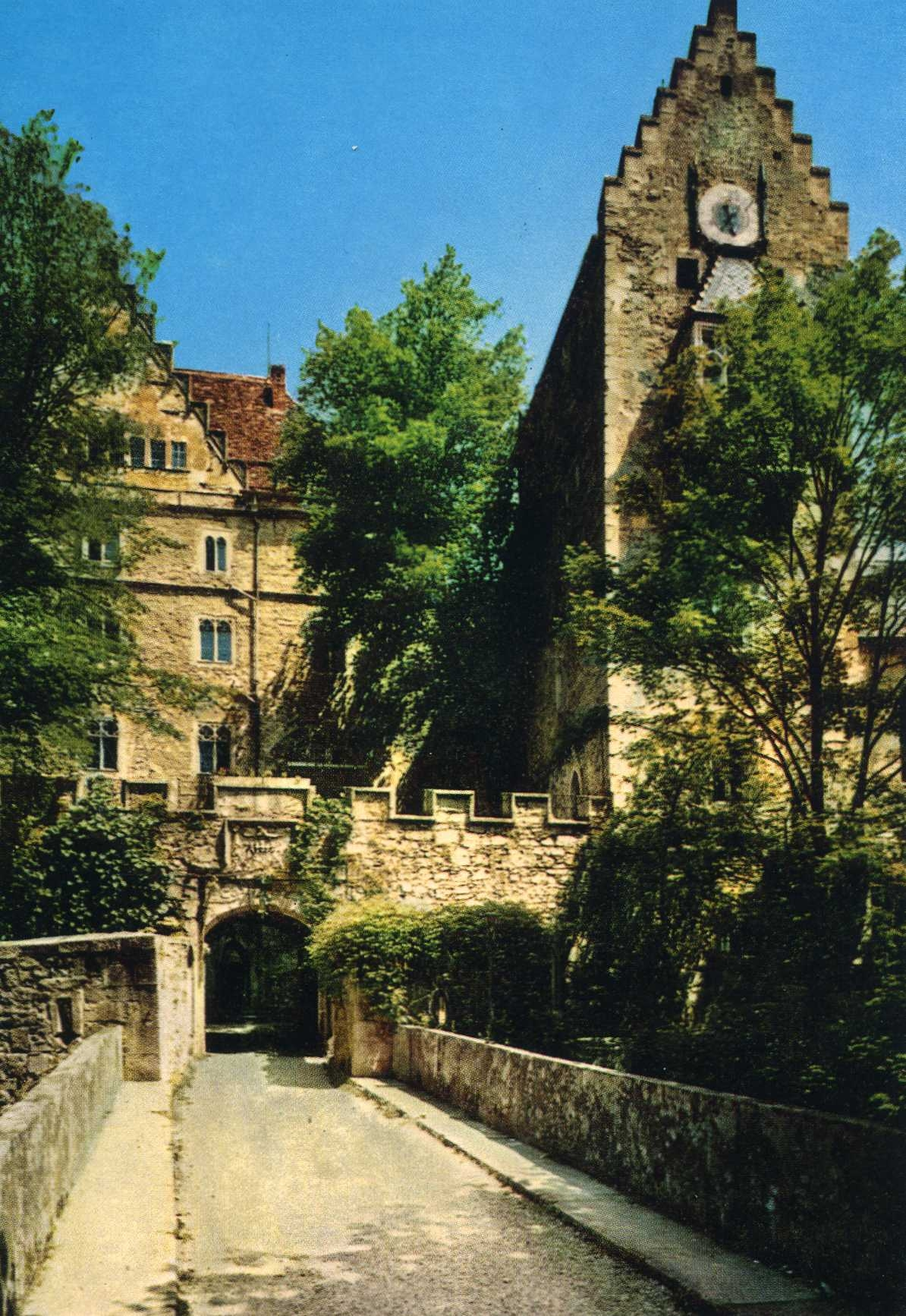 Zeitgeschichtliches Bildungszentrum Schloss Egg